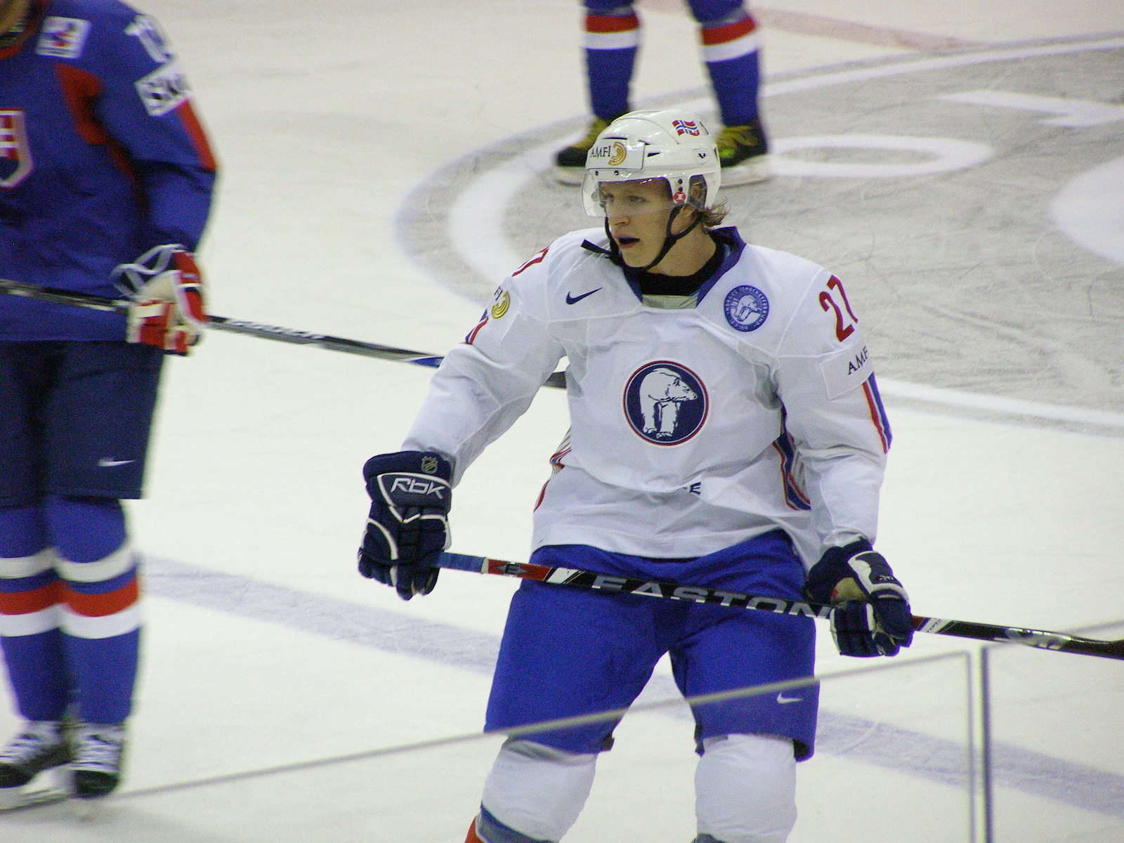 Mats Frøshaug, forward for the Norway men's national ice hockey team, during a game against Slovakia men's national ice hockey team at the 2008 IIHF World Championship.